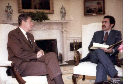 Laurence I. Barrett interviewing Ronald Reagan